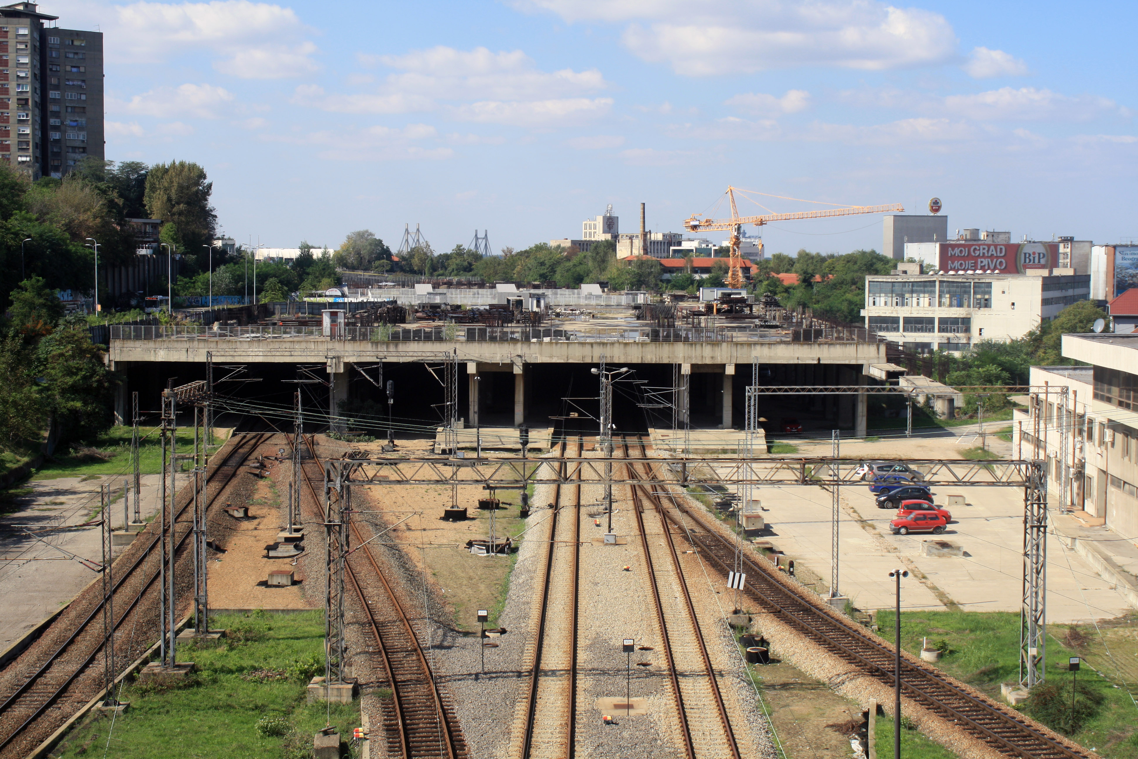 Prokop railway station.